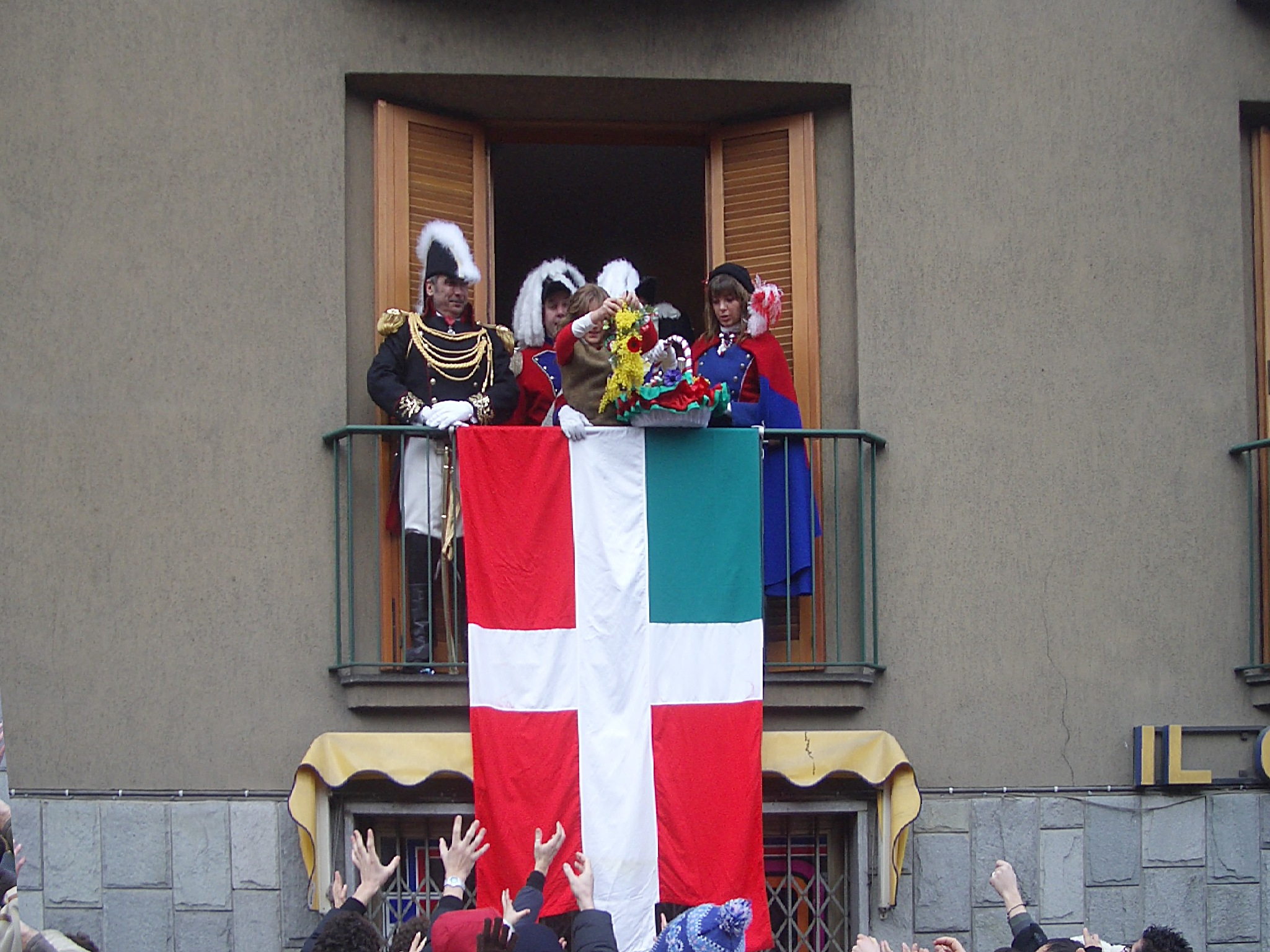 Carnival of Ivrea, Alzata degli Abbà (Nomination of the so called Abbots)